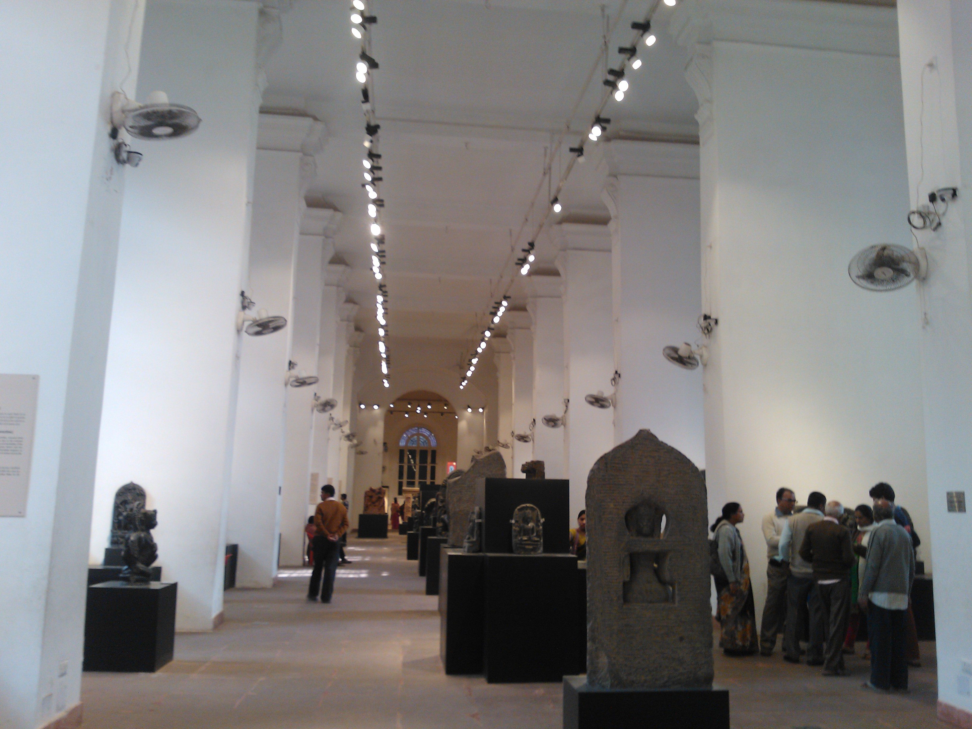 Indian Museum, Kolkata